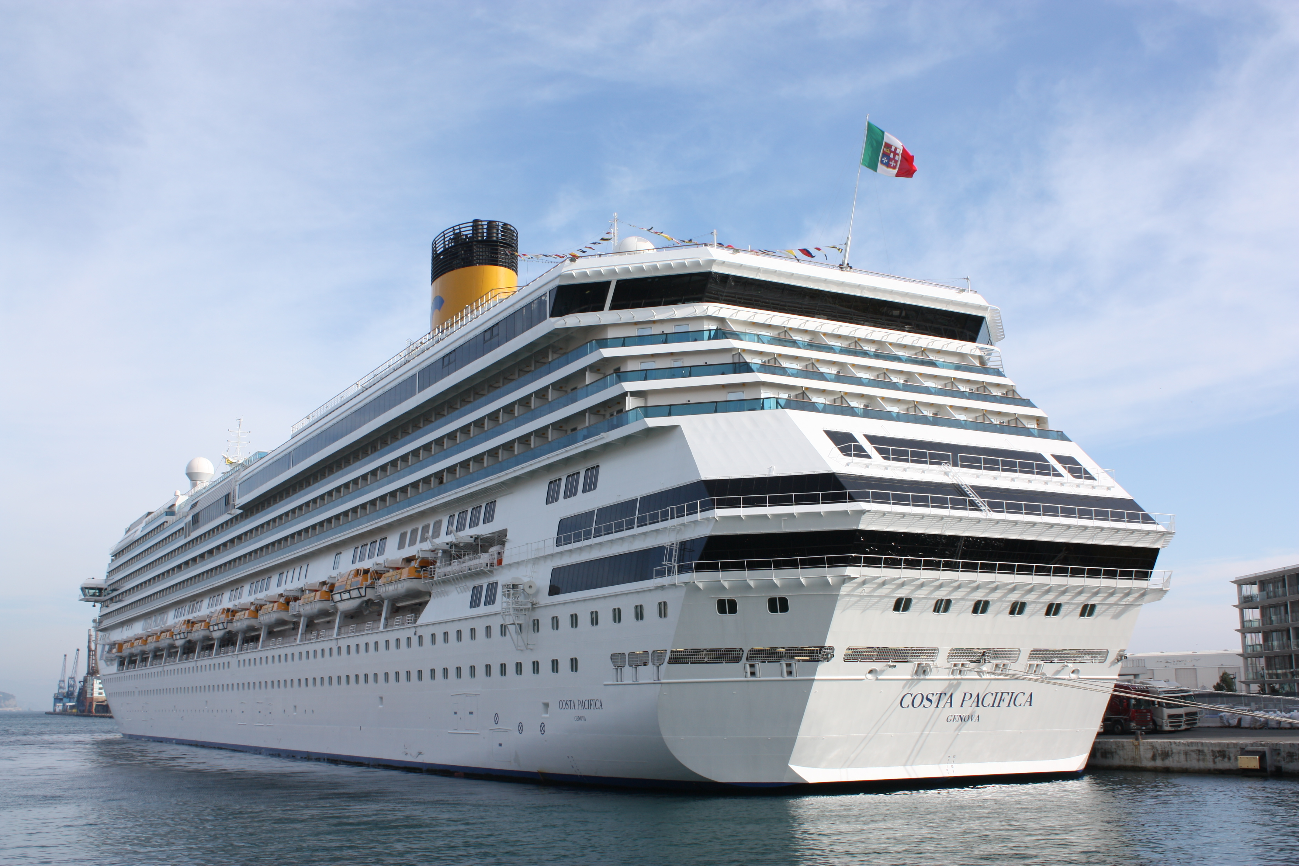 Costa Pacifica docked in Savona, Italy.